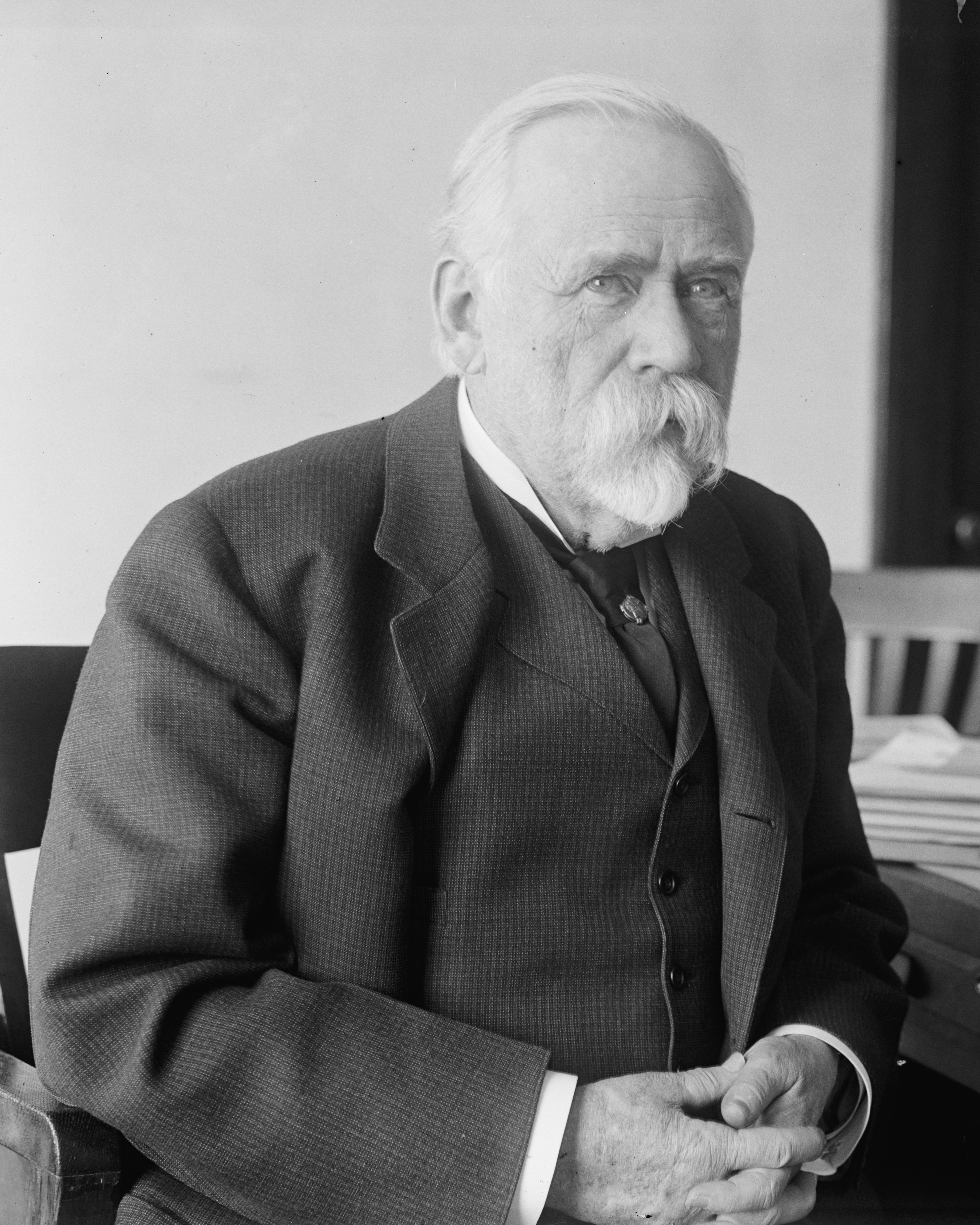 Title: Henry Walters Abstract/medium: Harris & Ewing photograph collection Physical description: 1 negative